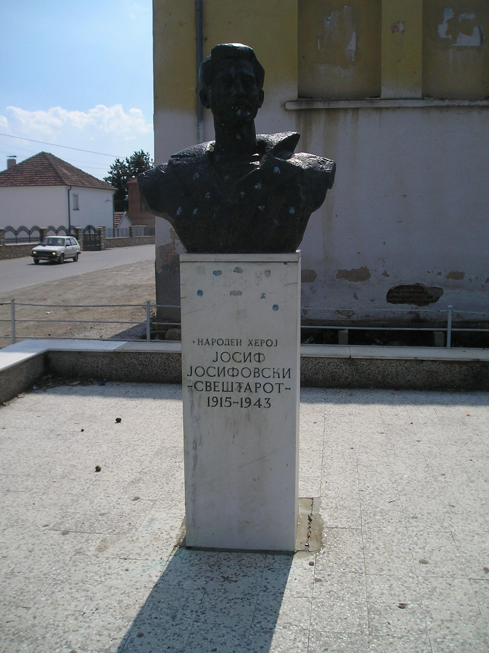 Statue of Josif Josifovski - Sveshtarot, People's Hero of Macedonia in Prespa.